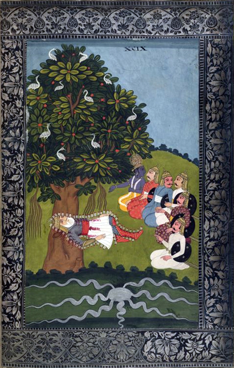 The Death of Bhisma Illustration from Razmnama (Book of Wars), a Persian translation of Mahabharata